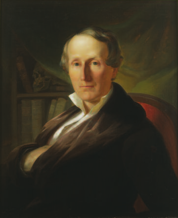 Portrait of Samuel George Morton, American Philosophical Society